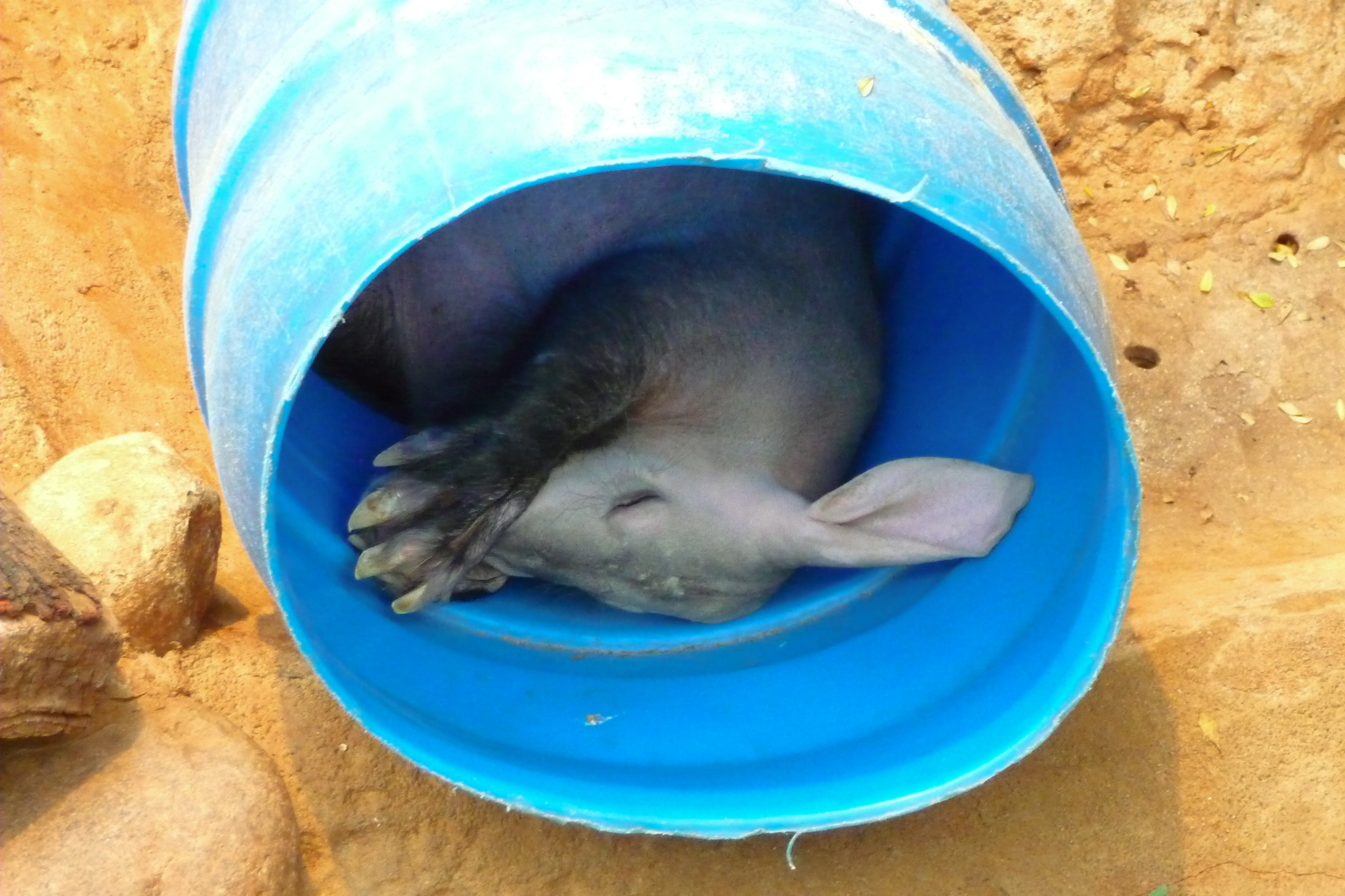 Lincoln Park Zoo. Here's a bucket of aardvark.